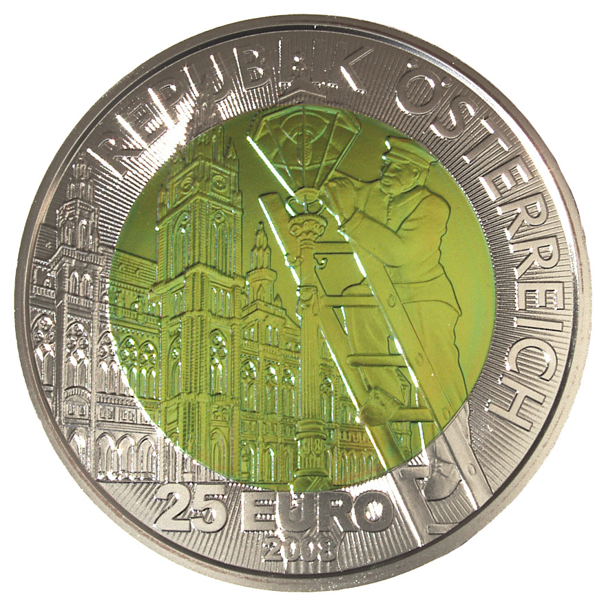 fascination of light